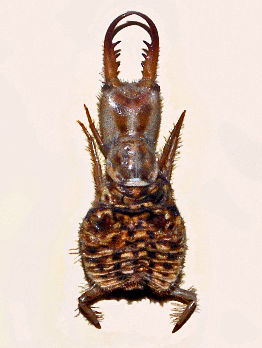 Larva of Distoleon tetragrammicus. Museum specimen